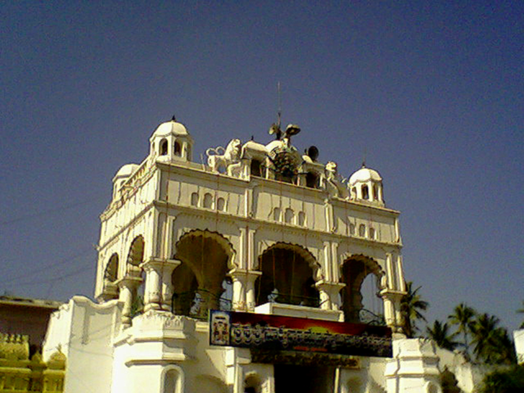 Arasavilli Suryanarayana Temple in Srikakulam of Andhra Pradesh